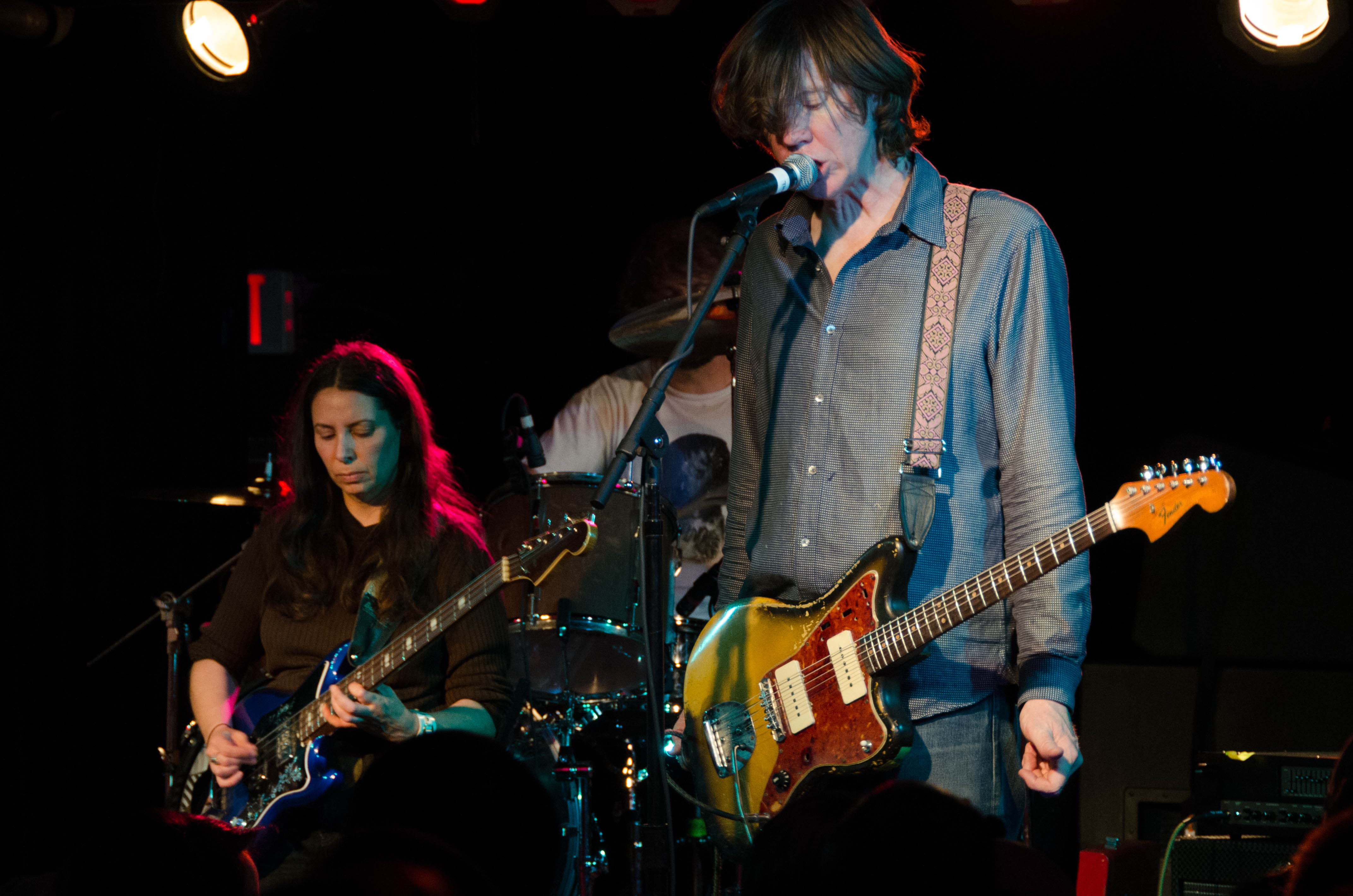 Chelsea Light Moving performing at the Black Cat on April 4, 2013.